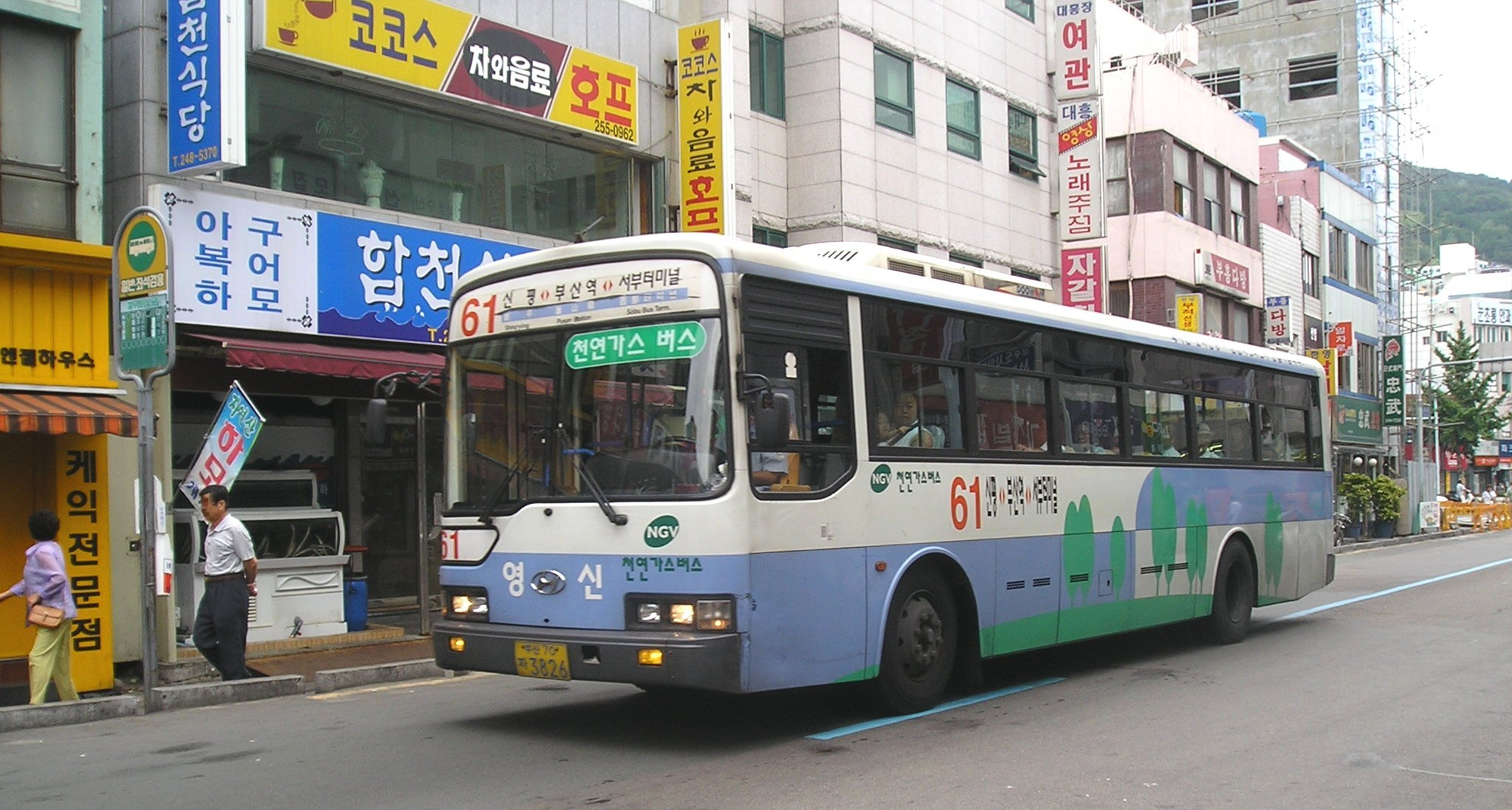 The route 61 in Busan.